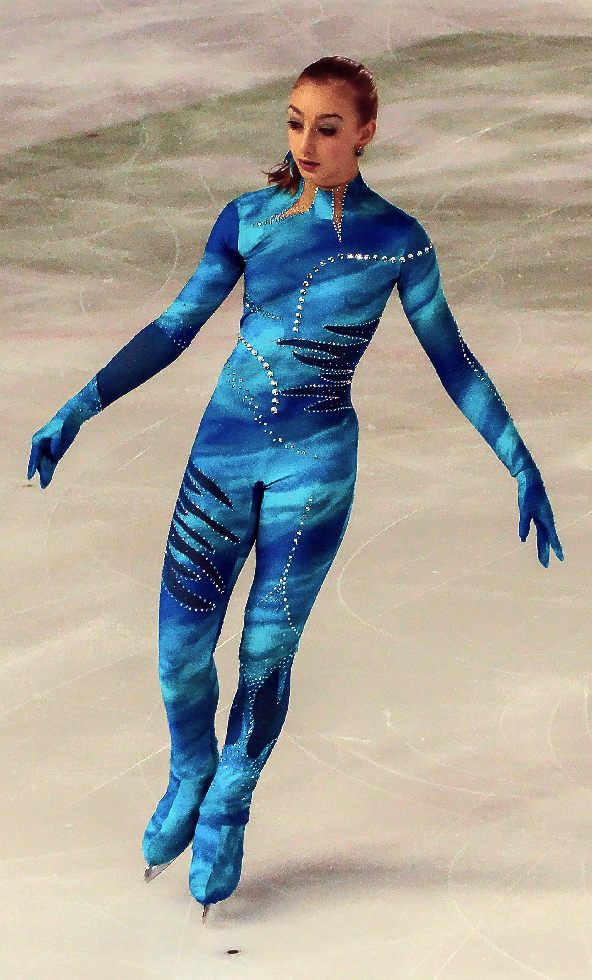 French figure skater Anaïs Ventard during a championship in Strasbourg in 2012.